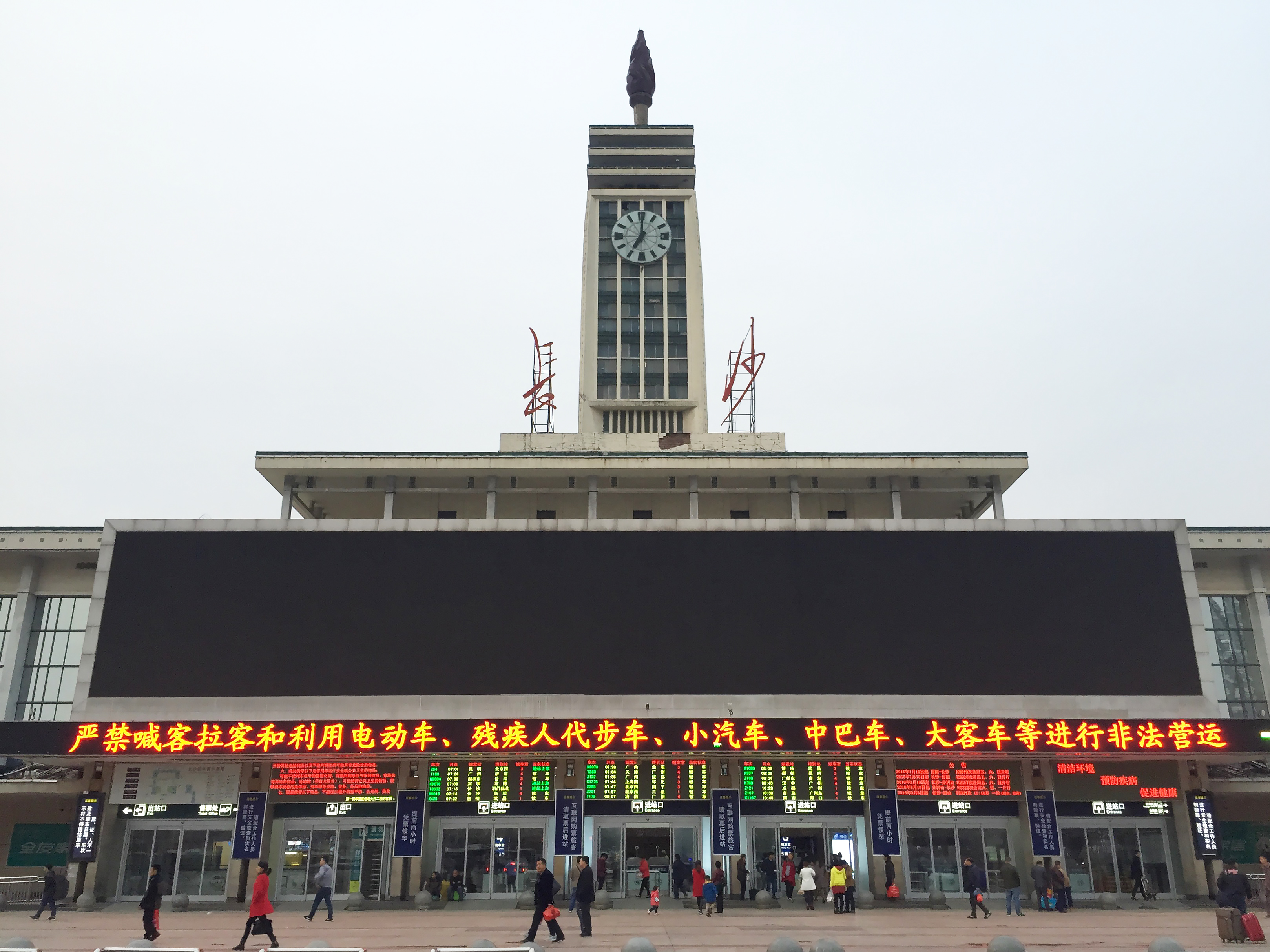 The bell didn't struck at 6:00 and 7:00 that day...However, it's still a pleasure to see this huge "chili pepper" on the bell tower! The "capsicum" was designed as a torch, but the direction was too controversial in that era, so it went straight up, eventually forming a "chili pepper". People from other provinces may wonder, "The people in Hunan love spicy food so much that they placed a huge chili pepper on the railway station"...The "Changsha" characters are extracted from the handwriting of Mao Zedong's 1925 poem Qinyuanchun - Changsha.